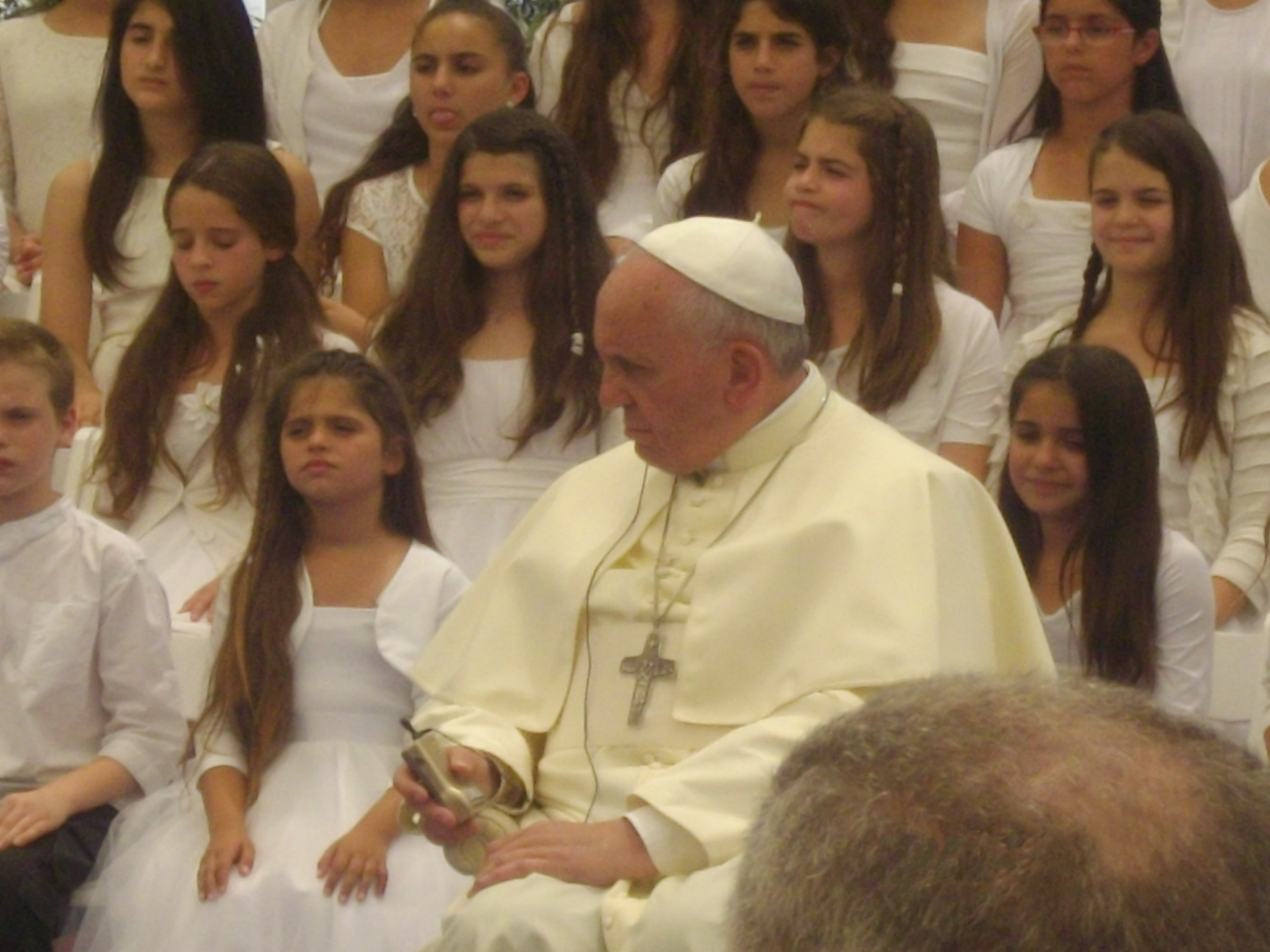 Pope Francis in Israel